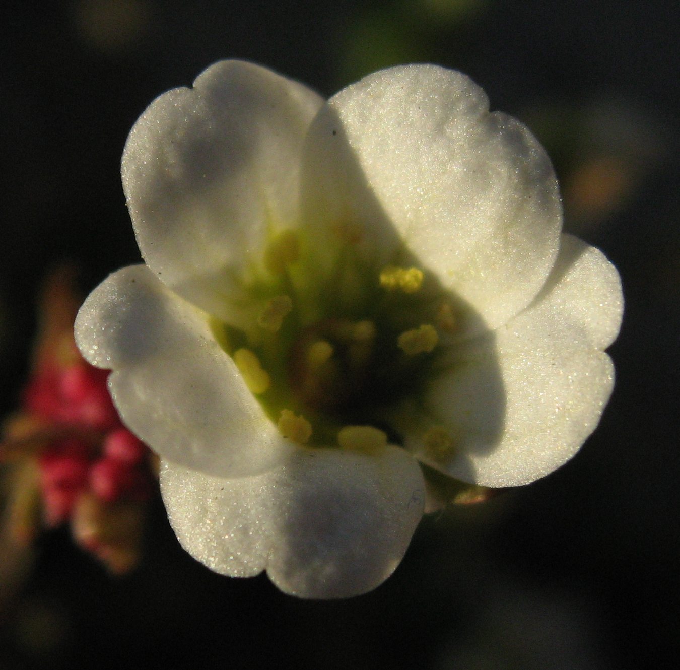 Saxifraga cernua close-up of flower photographed in midnight sun next to a house in Upernavik, Greenland. Cropped.